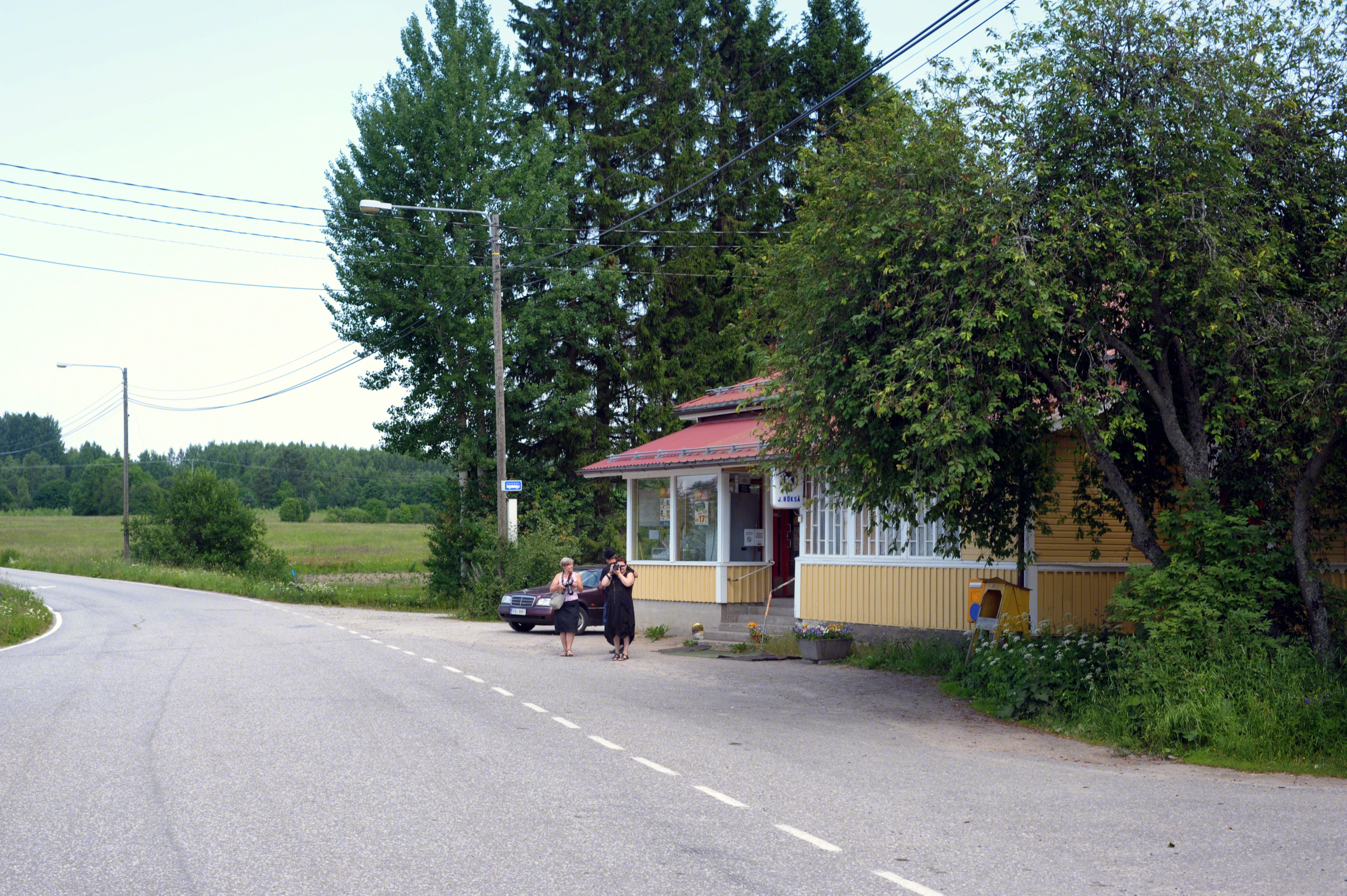 Kirjavala Village in Parikkala, Finland.